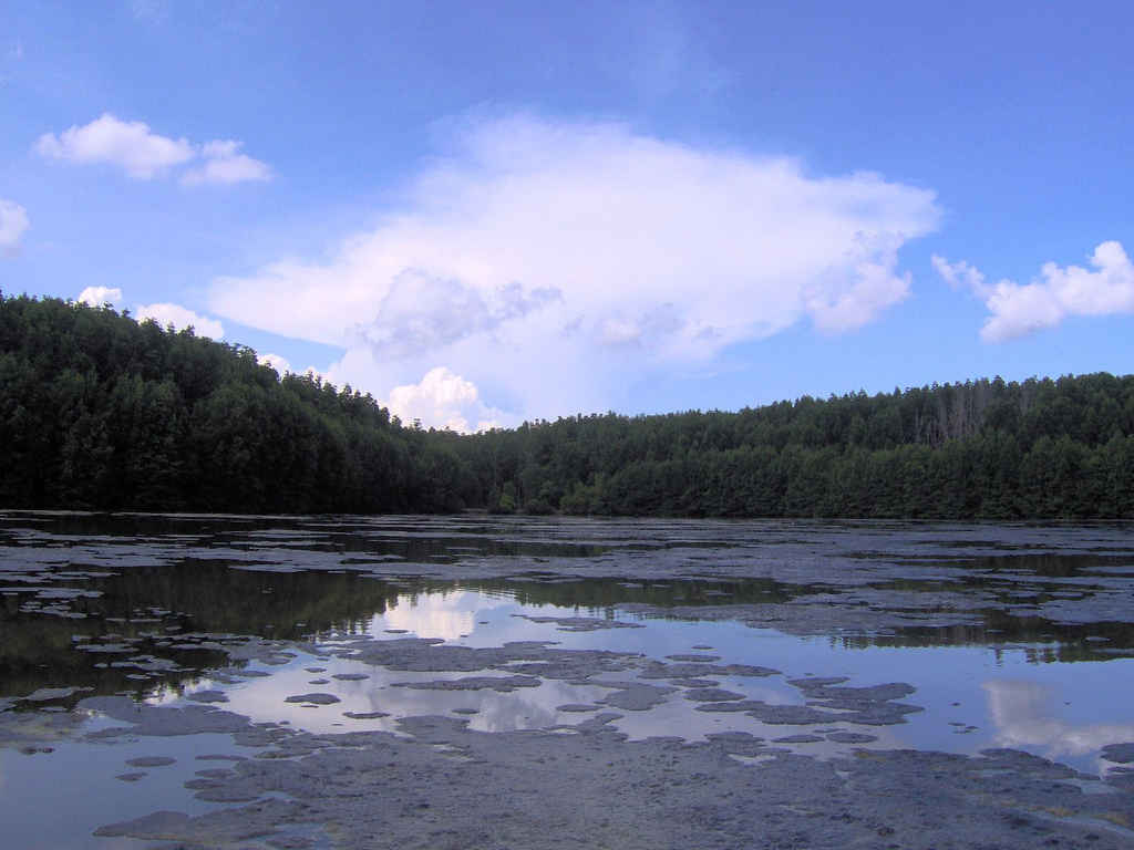 Đầm Dơi (Bat swamp) in ecological tourist zone Vàm Sát, Cần Giờ District, Ho Chi Minh City, Vietnam